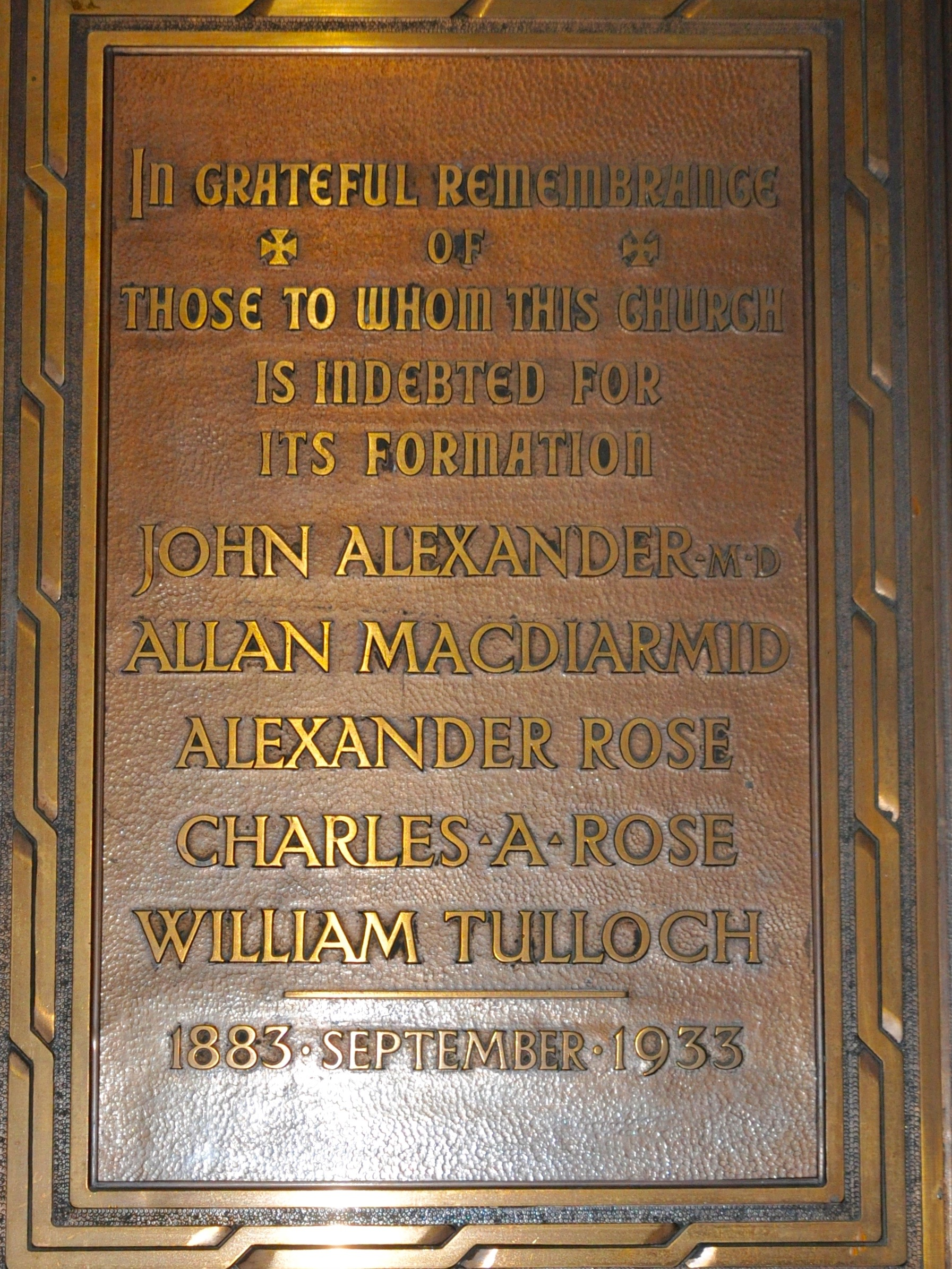 Plaque on display at entrance to Hillhead Baptist Church. The inscription reads, 'In grateful remembrance of those to whom this church is indebted for its formation: John Alexander, Allan MacDiarmid, Alexander Rose, Charles A Rose, William Tulloch.'